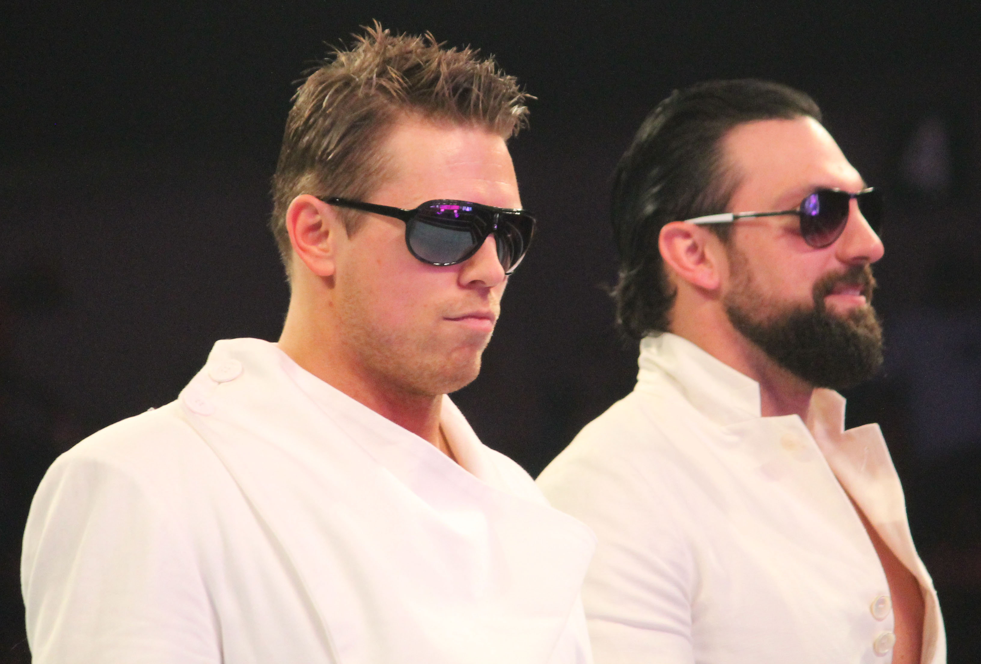 The Miz and his stunt double, Damien Sandow (as Damien Mizdow), at a WWE SmackDown television taping on September 16, 2014.